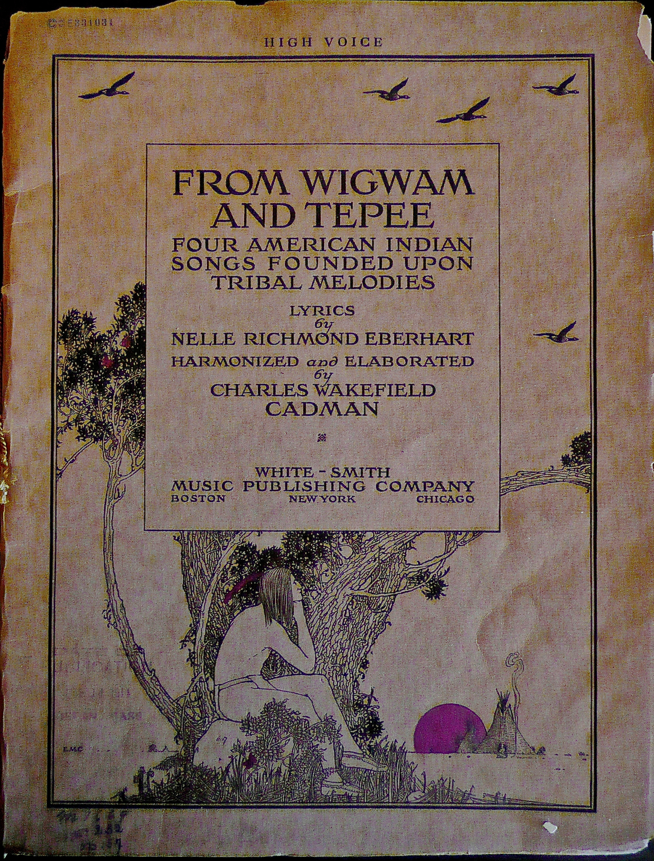 From Wigwam and Teepee - Four American Indian Songs founded upon Tribal Melodies - Charles Wakefield Cadman, 1914.